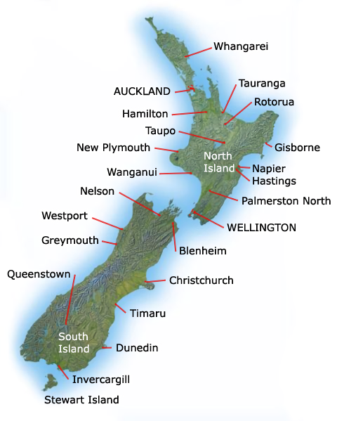 Topographic map of New Zealand with islands and main population centres labelled